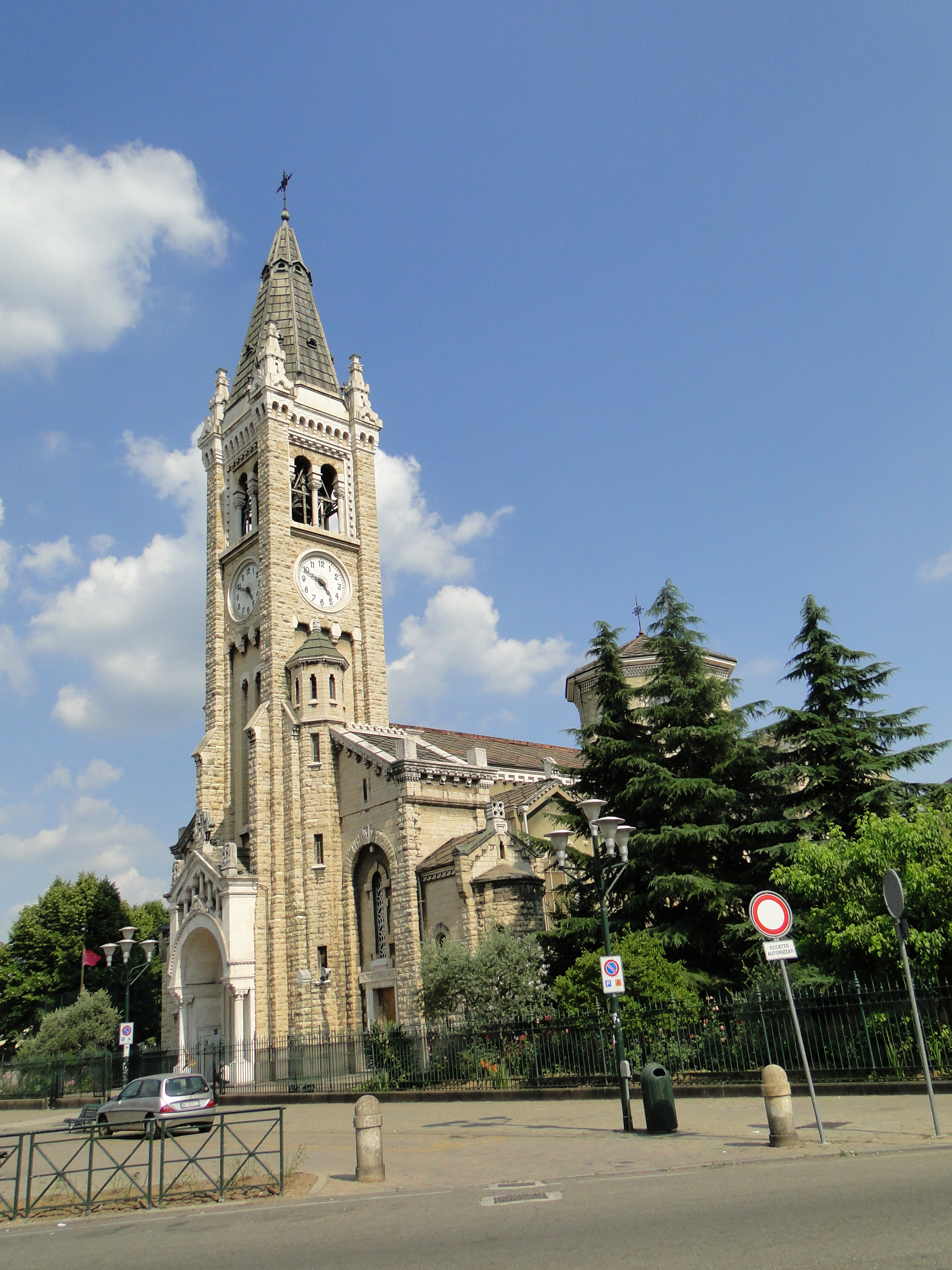 Santa Rita Church in Turin (Italy)